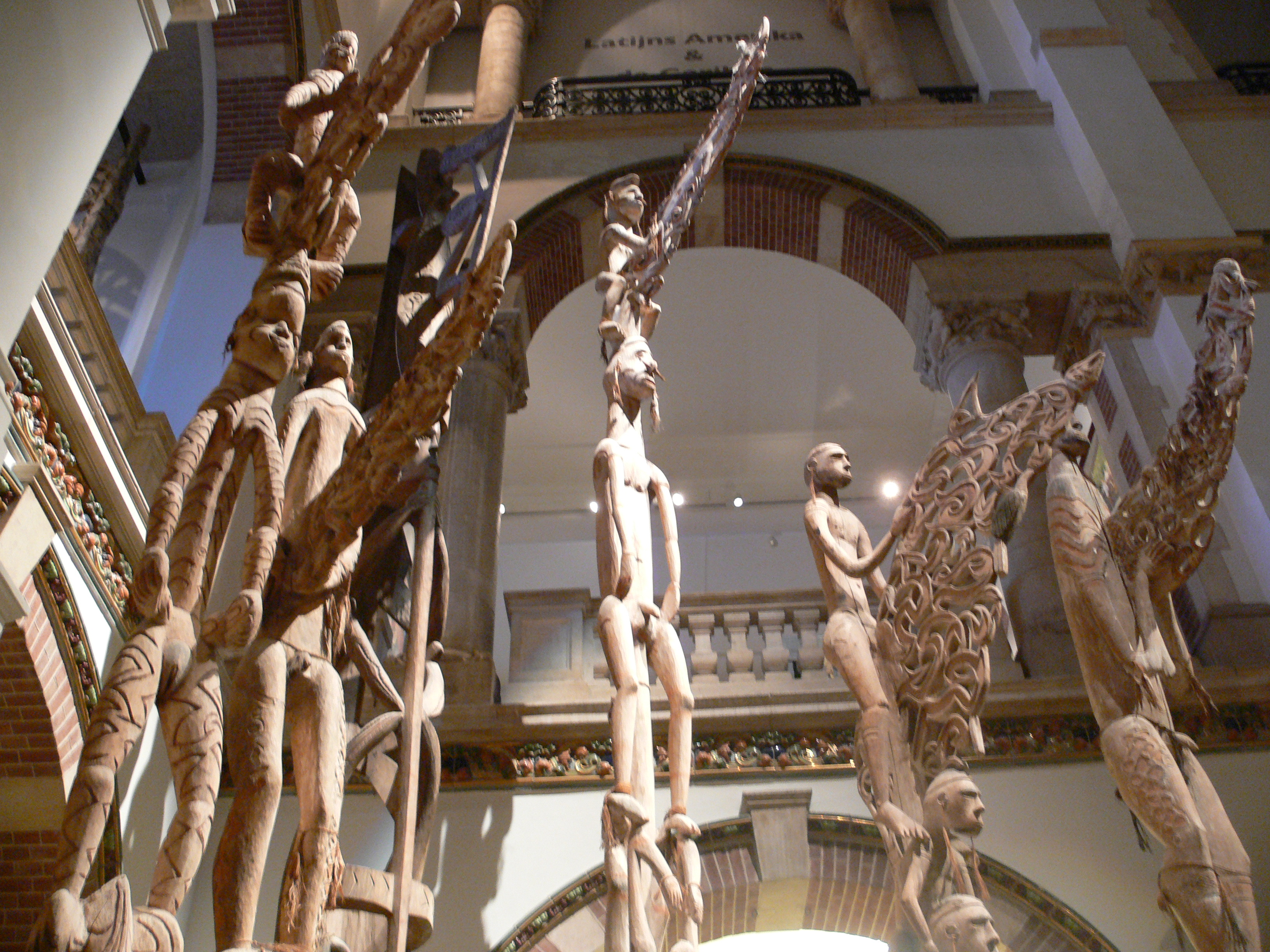 Bisj poles, wooden funerary poles from New Guinea